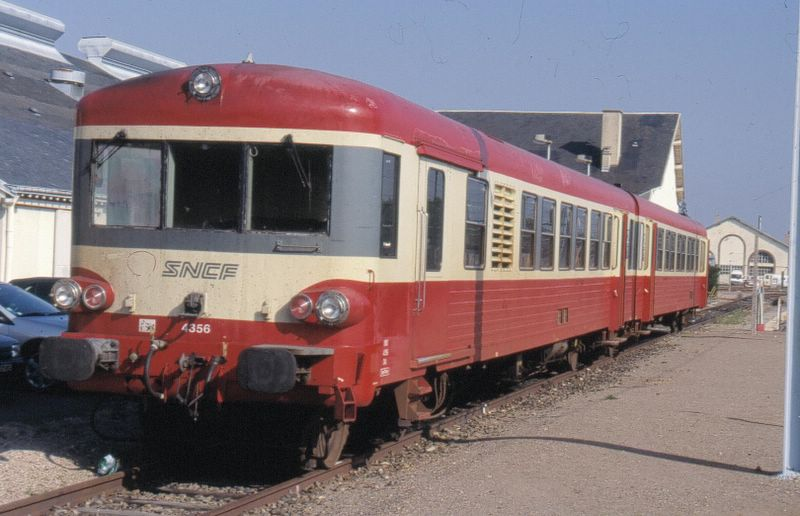 A X 4300 french DMU.